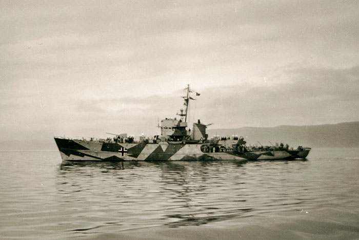 GER UJ 201 (ex Egeria) MM MG